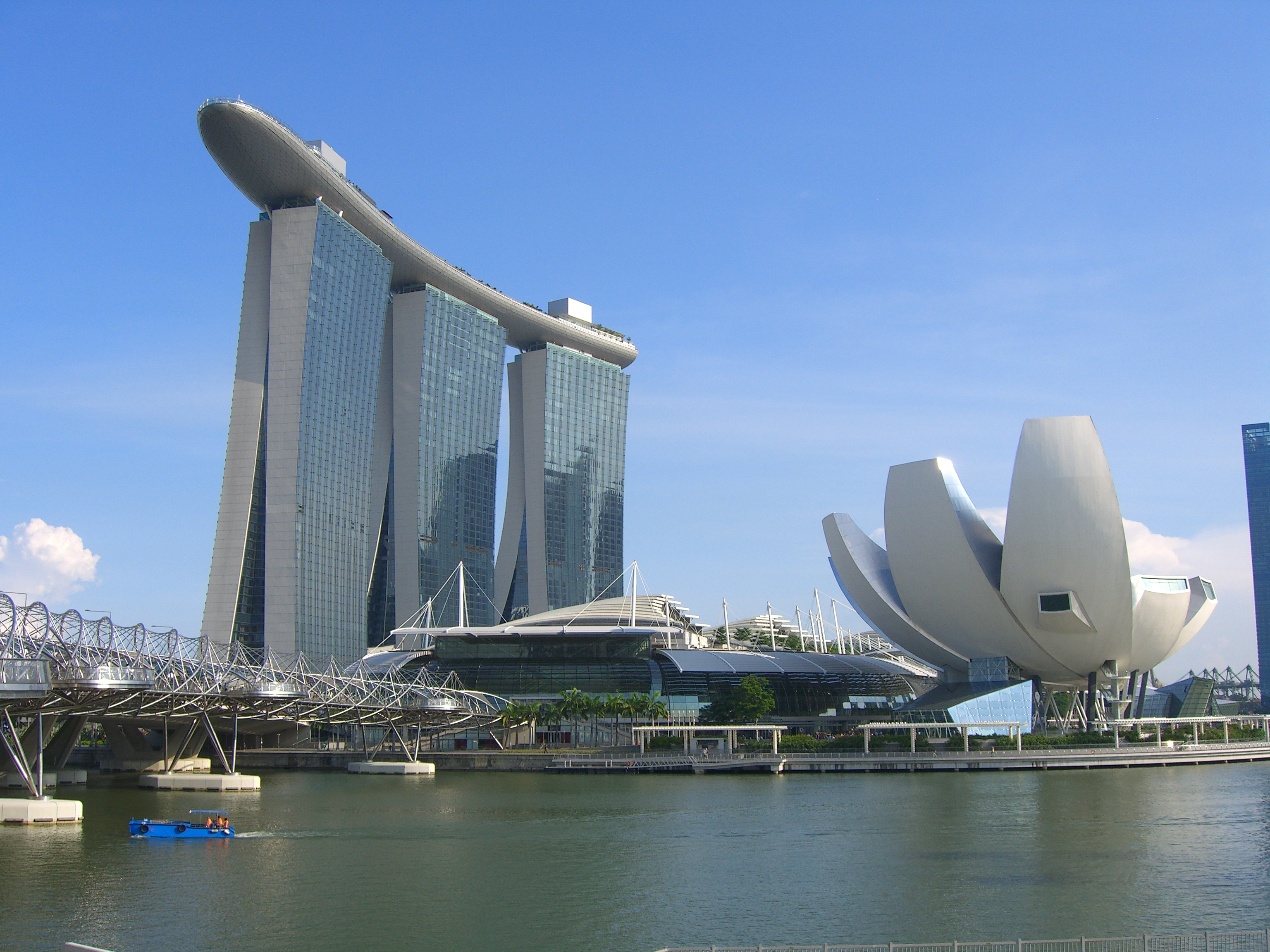 Marina Bay Sands, Singapore.